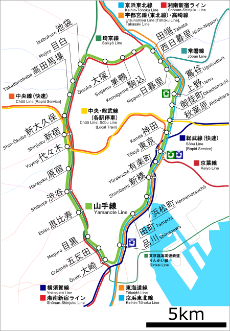 Map of JR Yamanote Line and other lines in Tokyo.